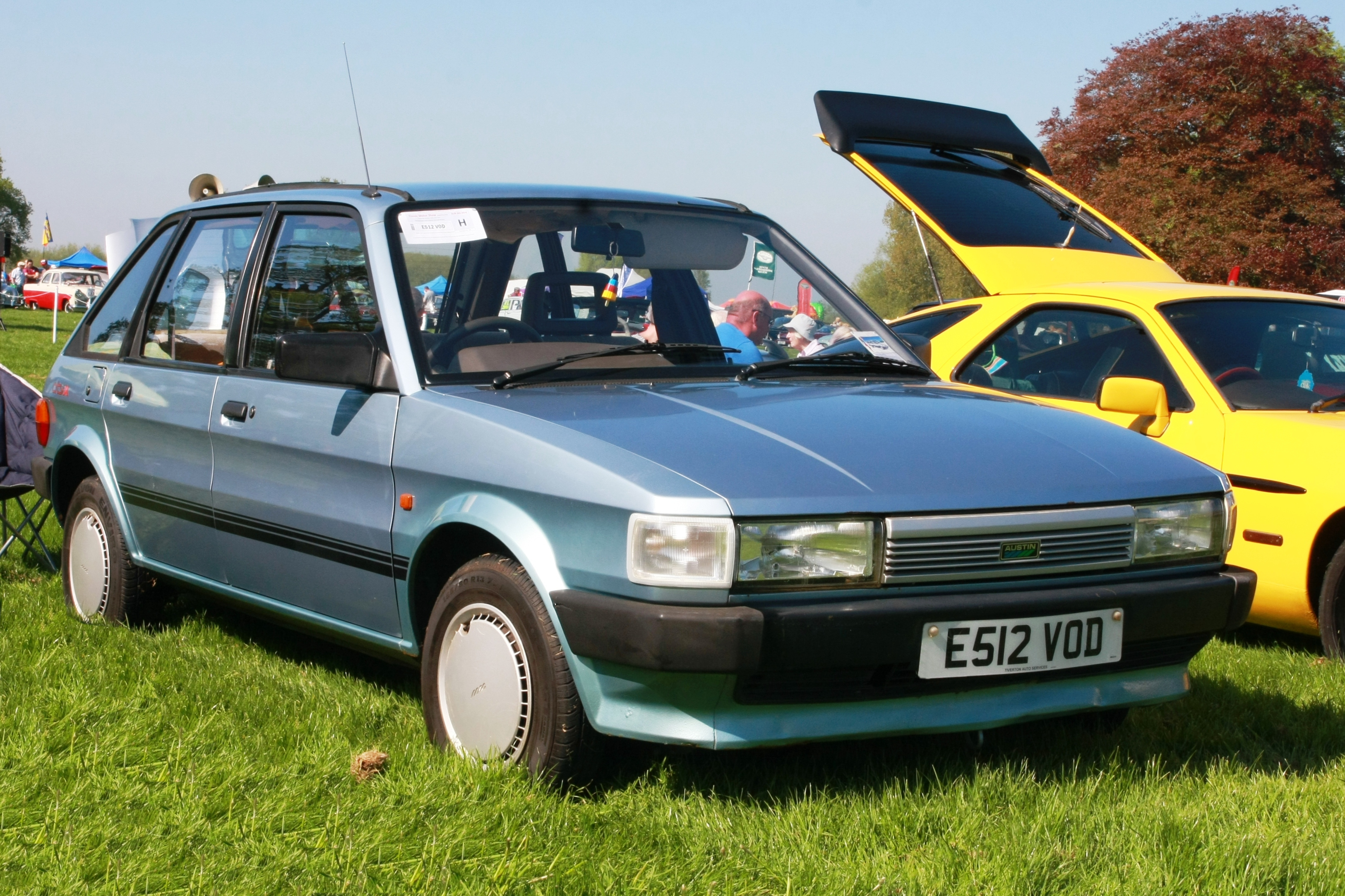 Austin Maestro 1300 (1987)